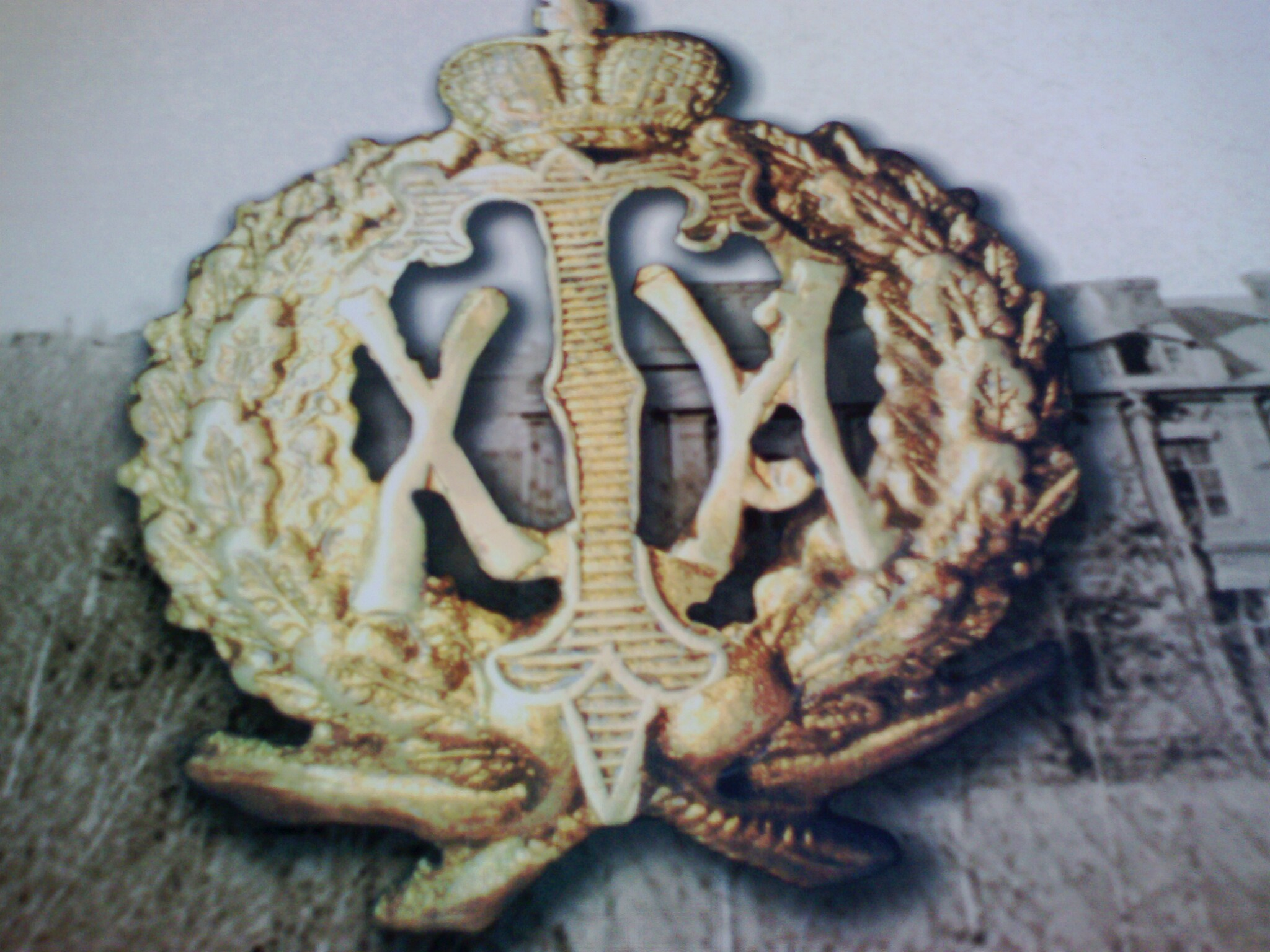 Gerb Kharkiv Technical Institute. 1890-years.